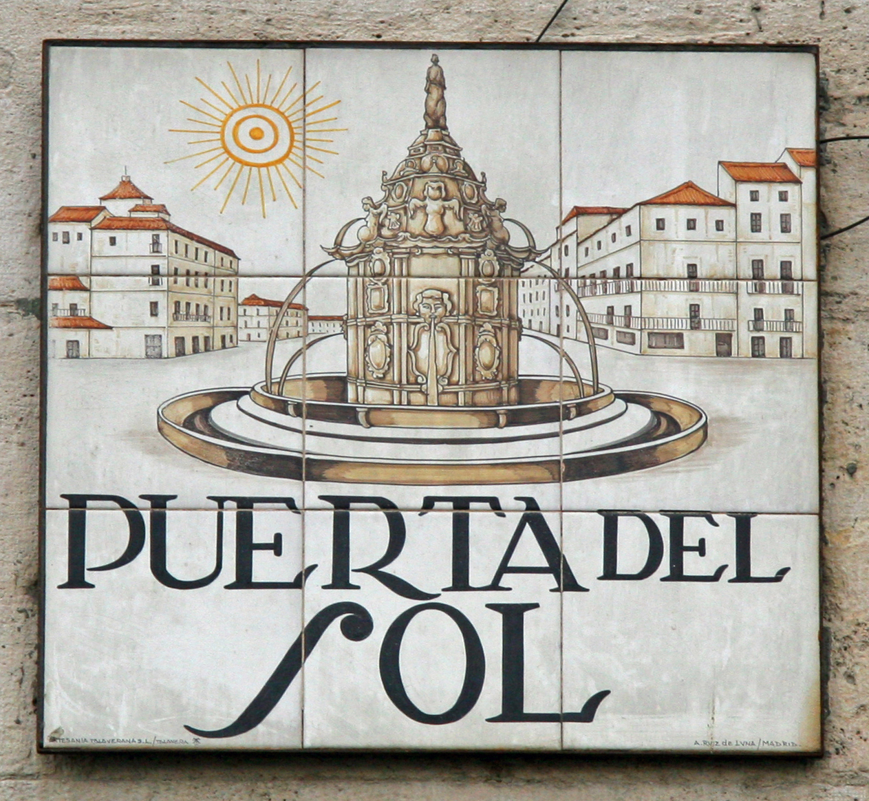 Sign of Puerta del Sol (square) in Madrid (Spain).